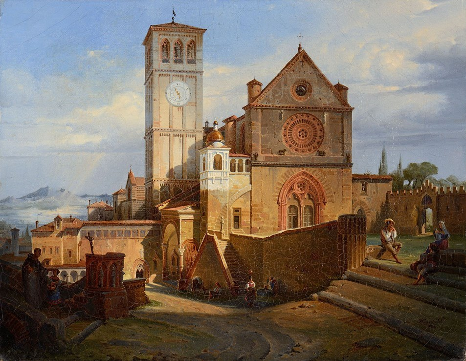 Basilica di San Francesco, Assisi 1836